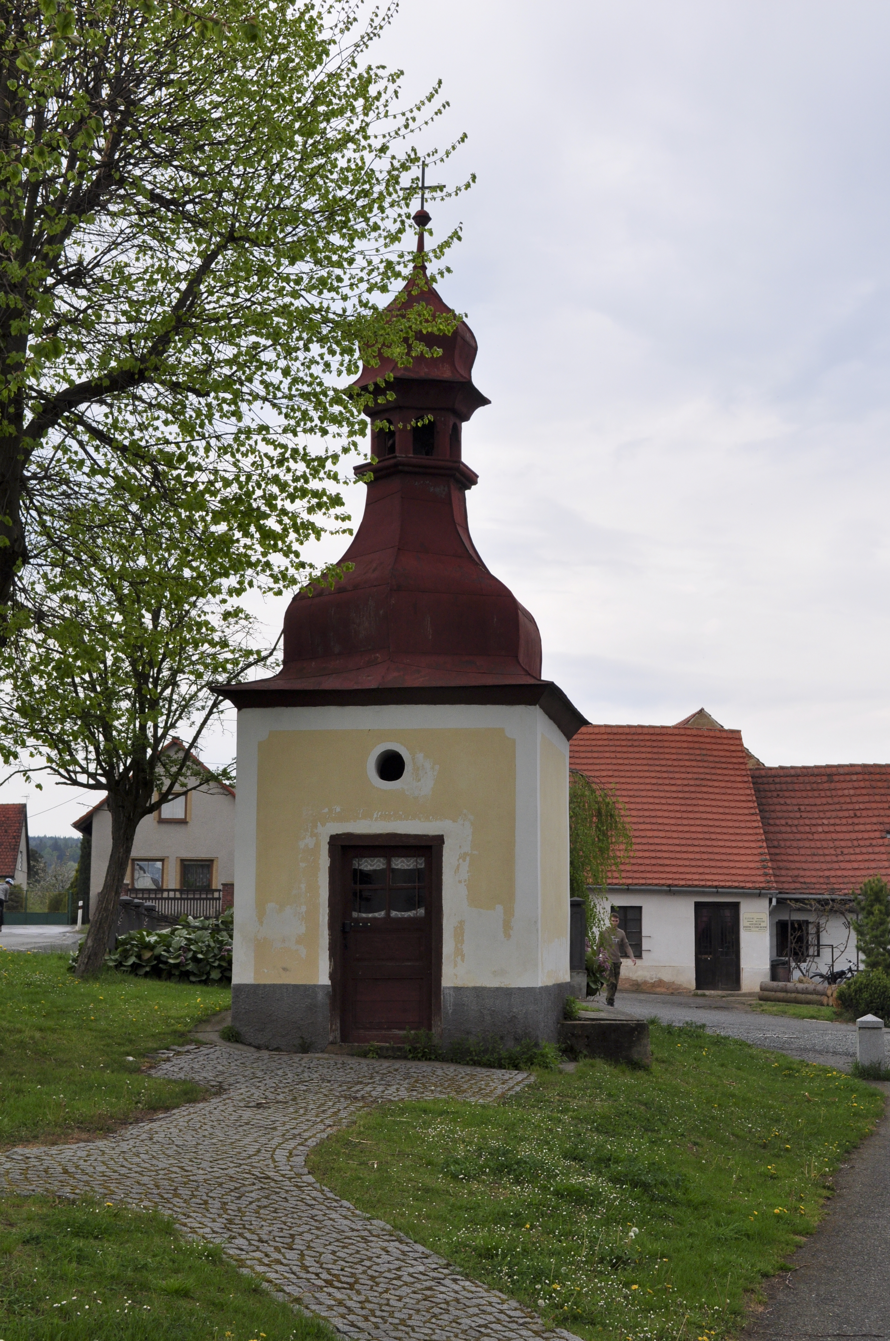 Šťáhlavice - chapel